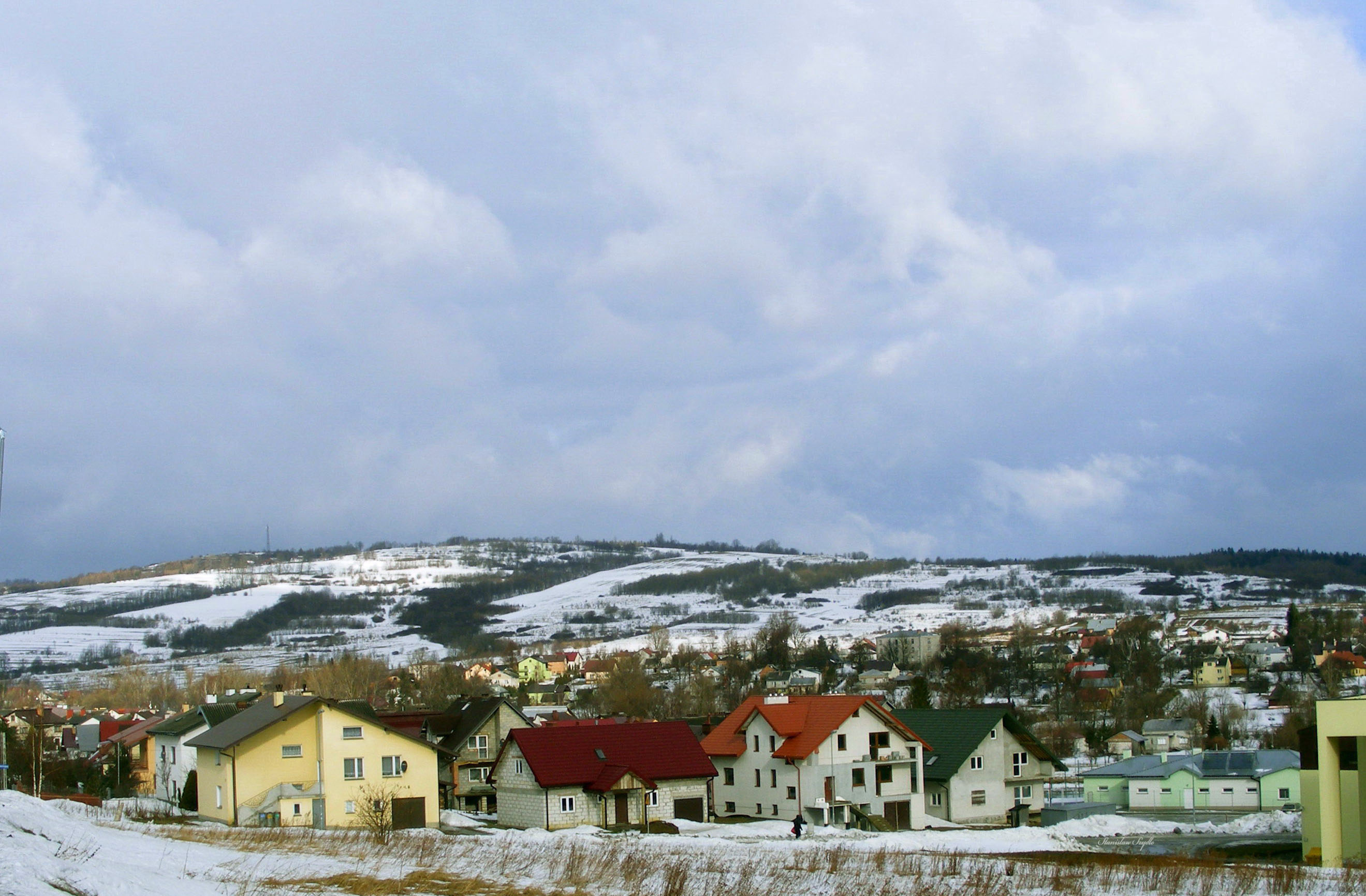 Dukla view of the hill Franks.